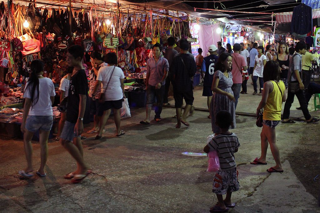 Night market at Koh Samui, Thailand.